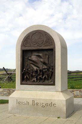 Monument to the Irish Brigade at Antietam National Battlefield